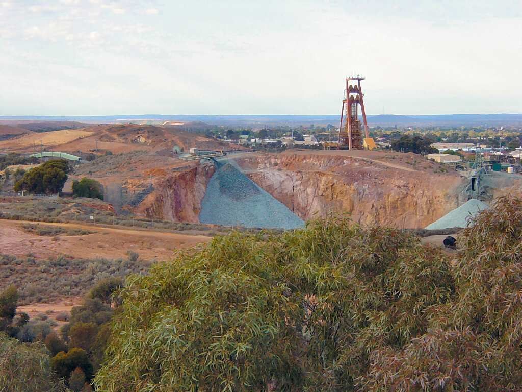 Photo taken and supplied by Brian Voon Yee Yap. Gold Mine.